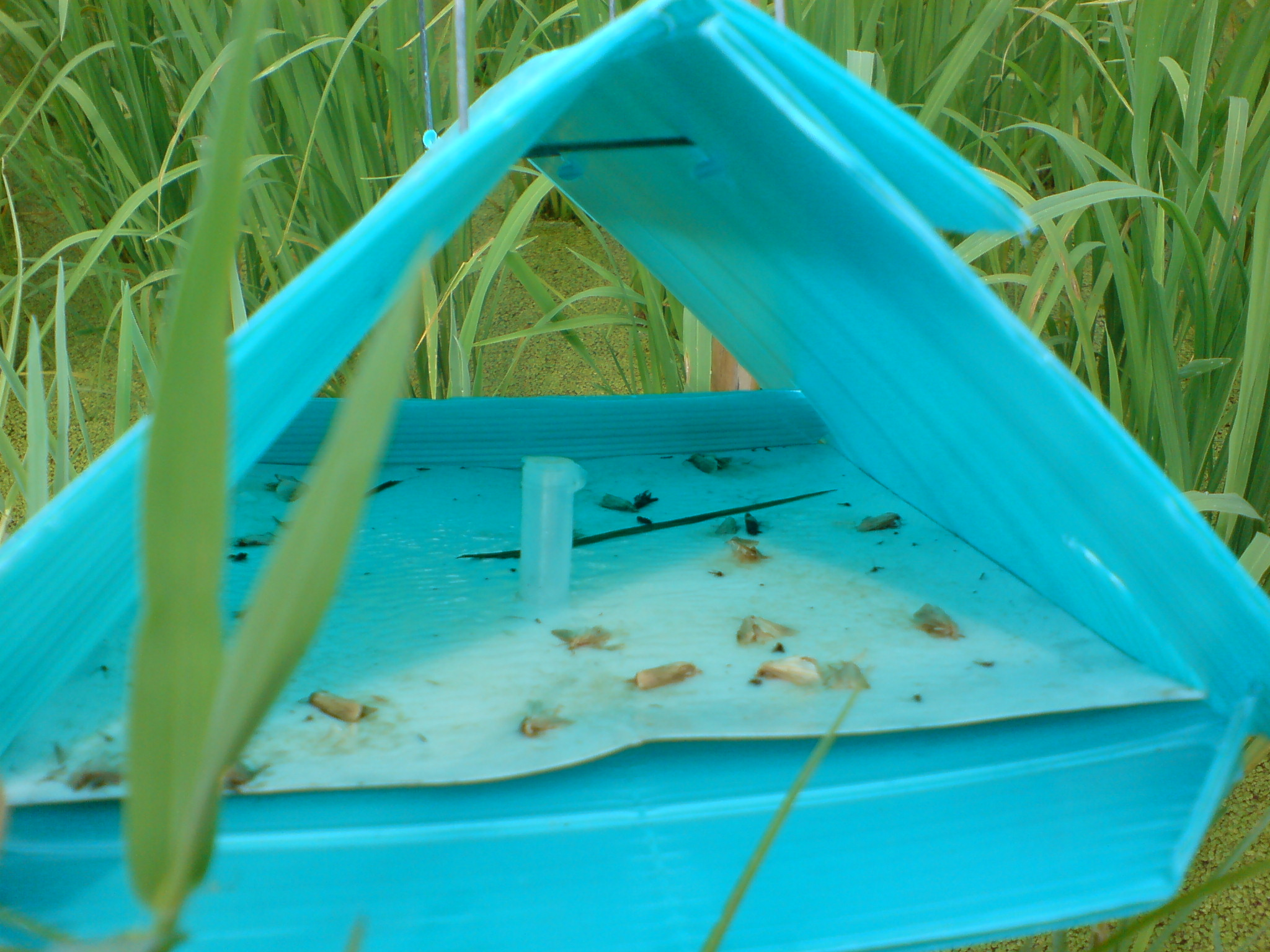 Pheromone traps for chilo suppressalis